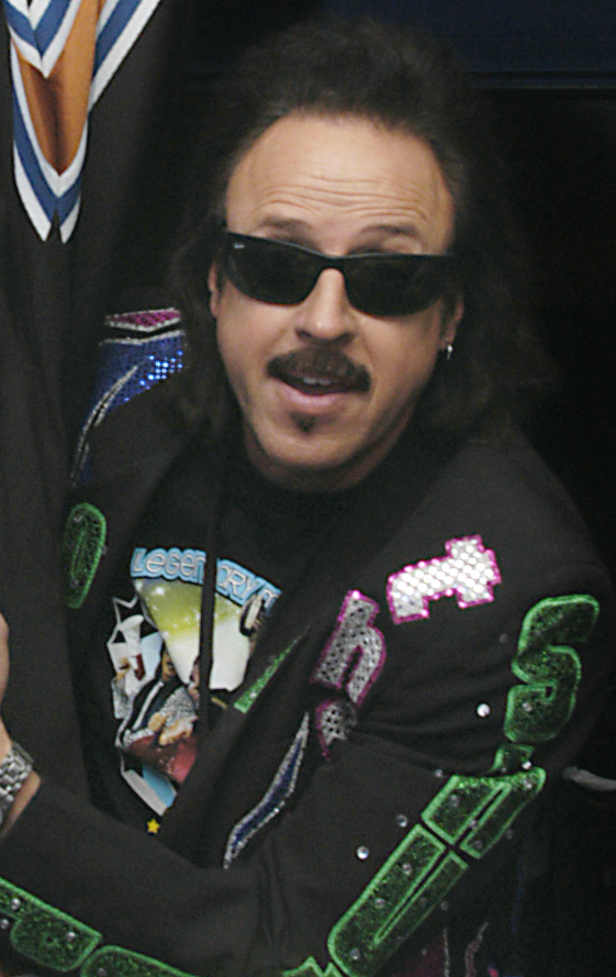 U.S. Army Pfc. Christopher Long (not seen in this crop) hefts a heavy weight belt as Jimmy "Mouth of the South" Hart poses with him for a photo. Long was one of 30 patients from Walter Reed Army Medical Center invited by the World Wrestling Entertainment to attend the Monday Night Raw held in Washington Dec. 18.